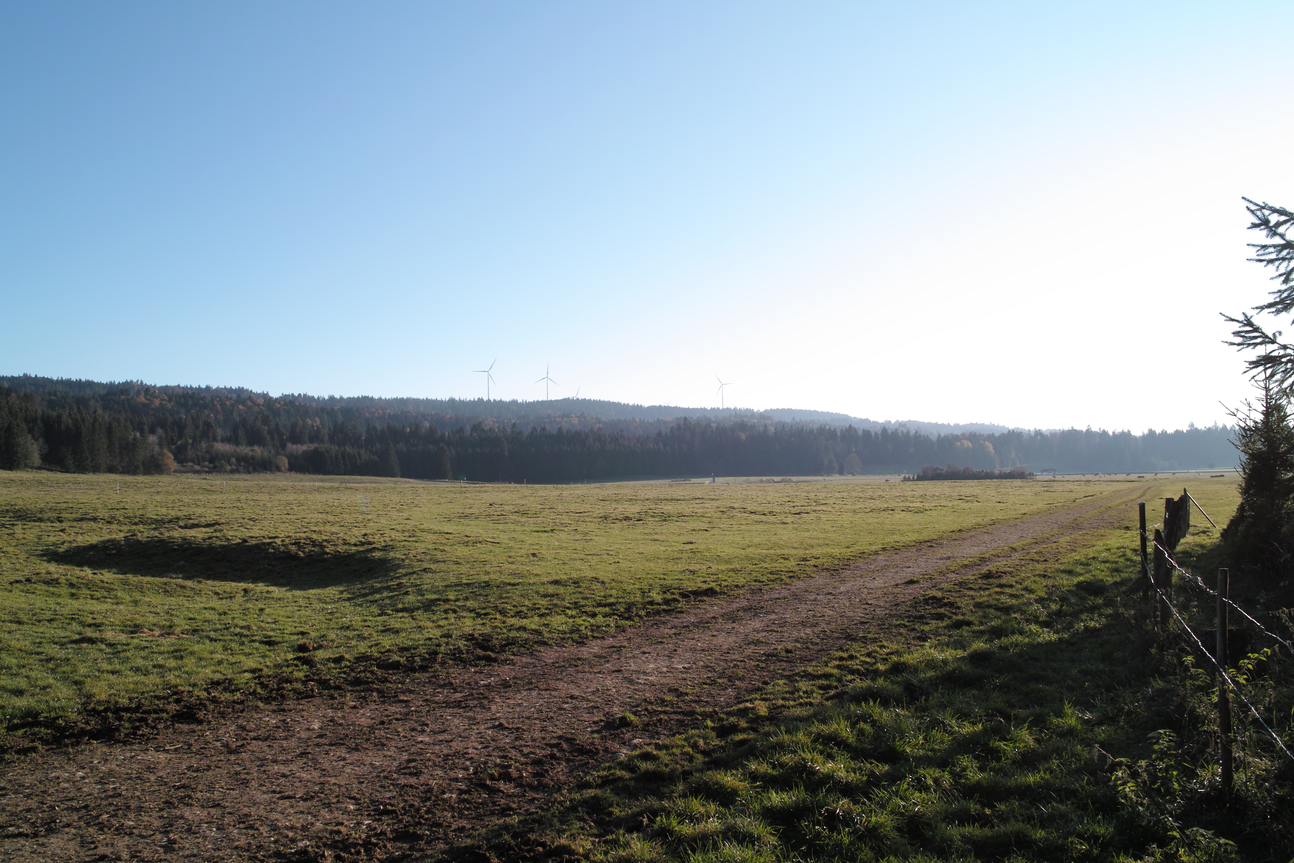 Pasture near Les Cerneux, La Chaux-des-Breuleux, canton of Jura, Switzerland. This pasture is part of Les Breuleux. View towards Mont Crosin.